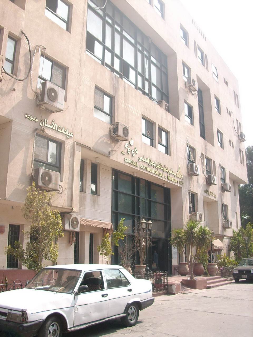 Ain Shams Univ Demedash Hospital Endoscopy Units building